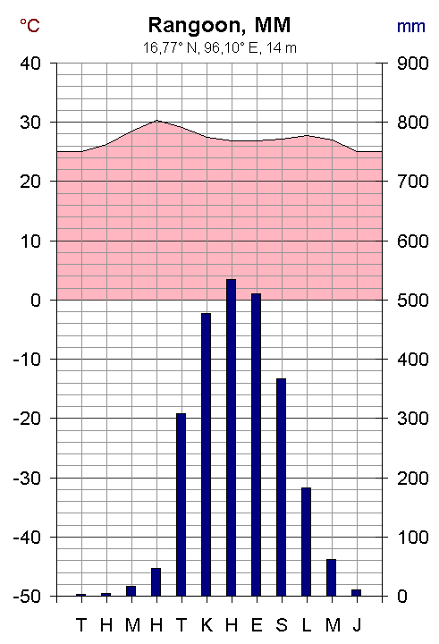 A climate diagram of Rangoon (Yangôn), Burma (Myanmar). Note: The months' names are accidentally in Finnish; feel free to change them and replace this image if necessary.